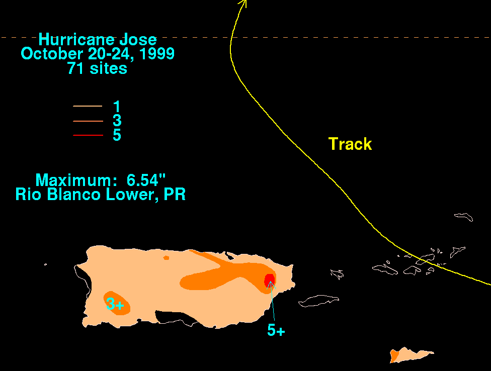 Rainfall produced by Hurricane Jose during October 1999.